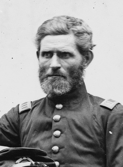 Captain James M Robertson, commanding Batteries B & L, 2nd U.S. Artillery, 1862.